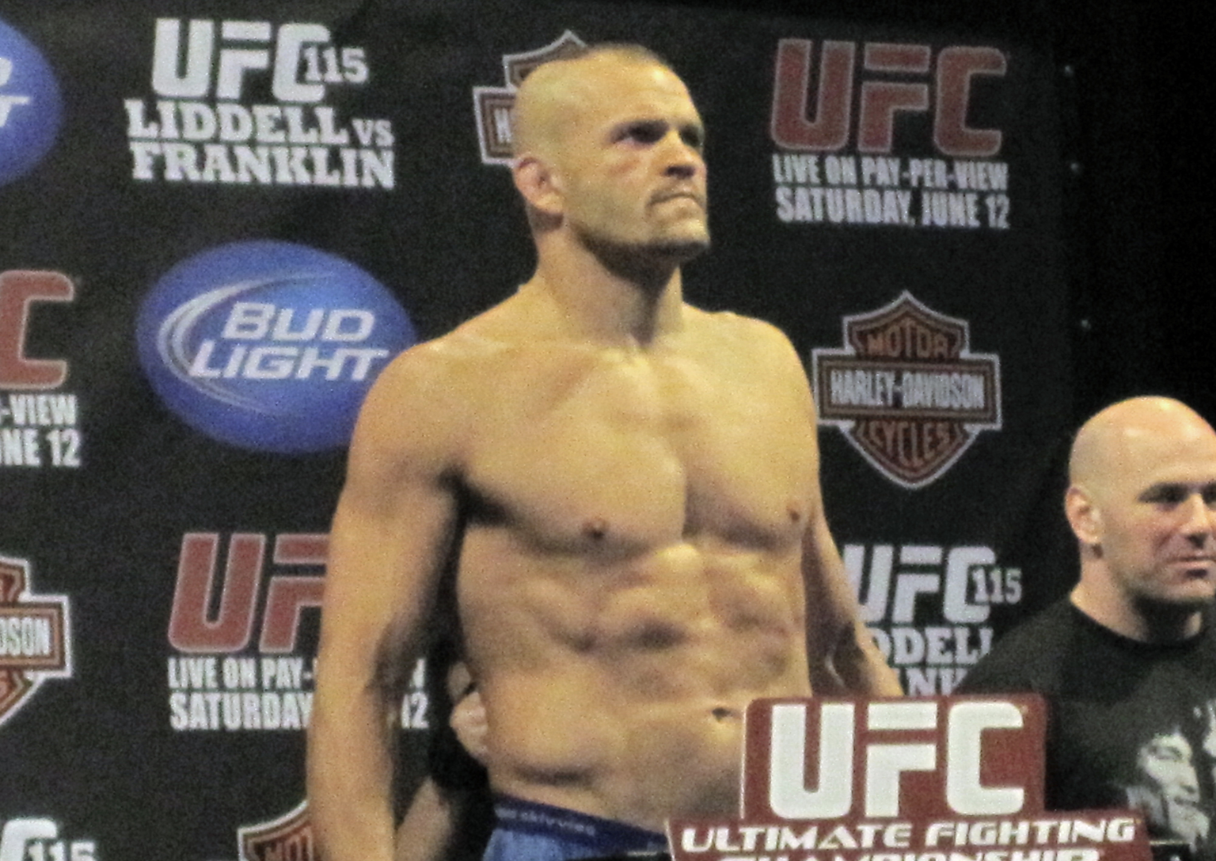 Chuck Liddell weighing in for UFC 115